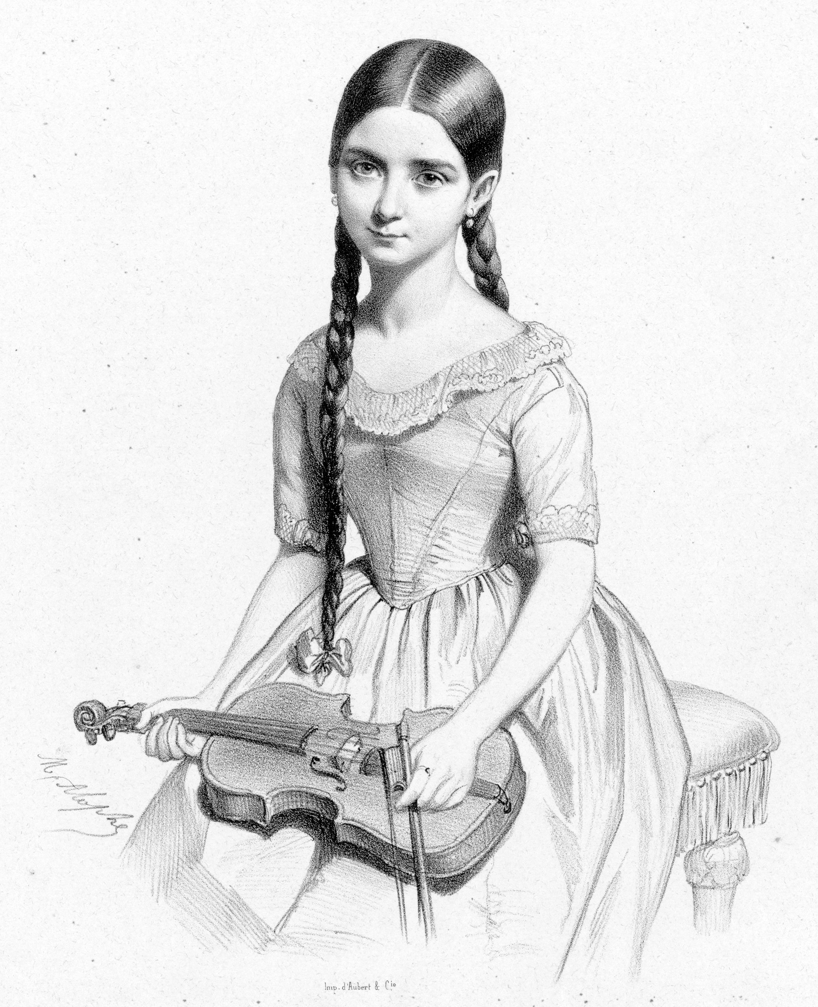 Italian violinist and composer Teresa Milanollo (1827-1904) by Marie-Alexandre Alophe (1812-1883).